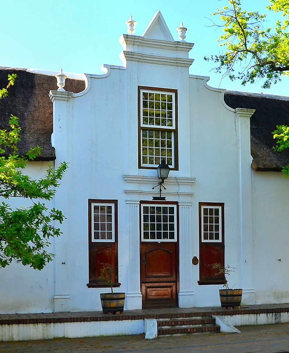 This imposing architectural complex consists of a Cape-Dutch house which was erected in about 1815 and a double-storeyed annex which dates back to about 1960. The property is closely associated with two well-known Stellenbosch families, i.e. the Neethling .